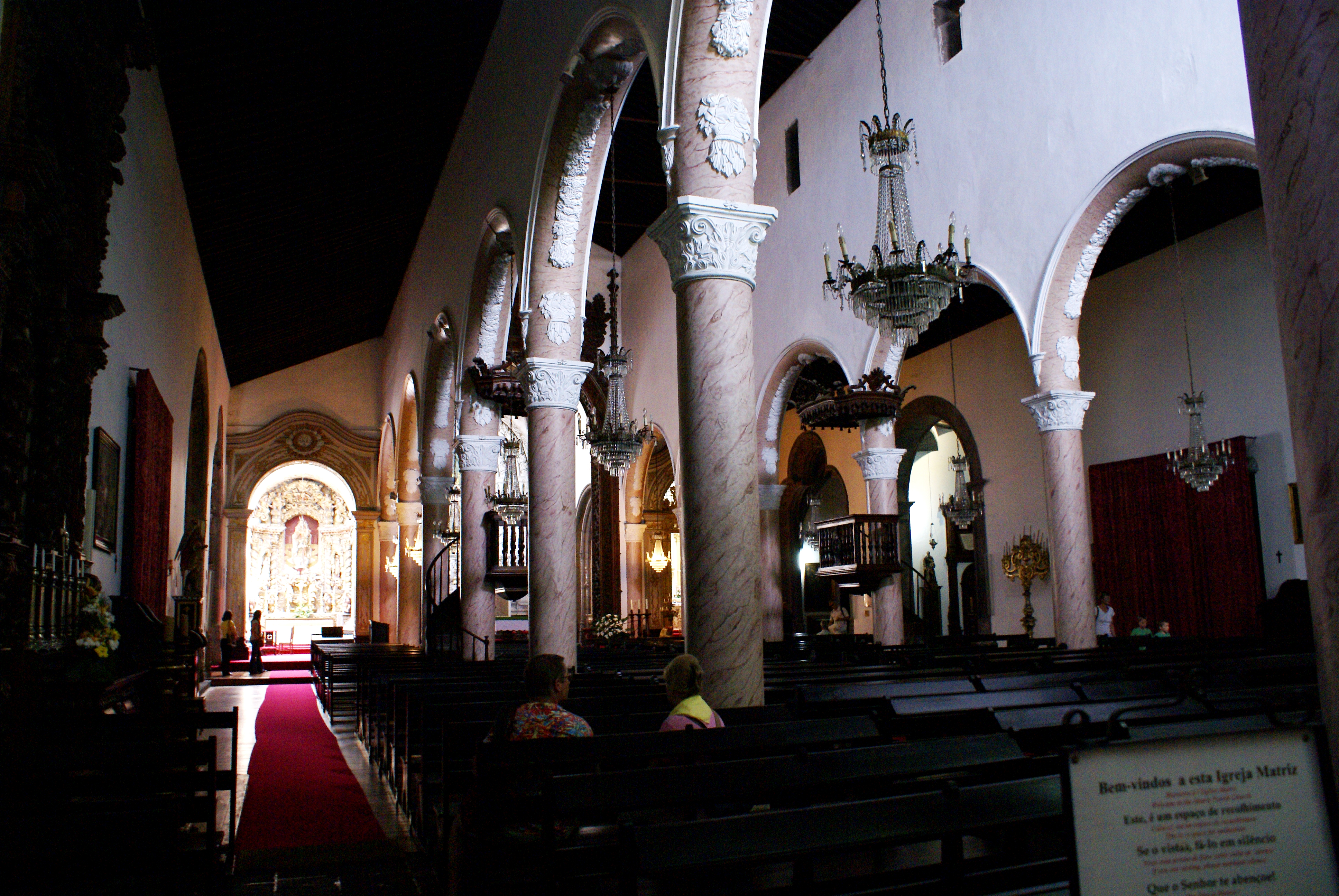 Nave of the Church of São Sebastião, Ponta Delgada, São Miguel (Azores), Portugal